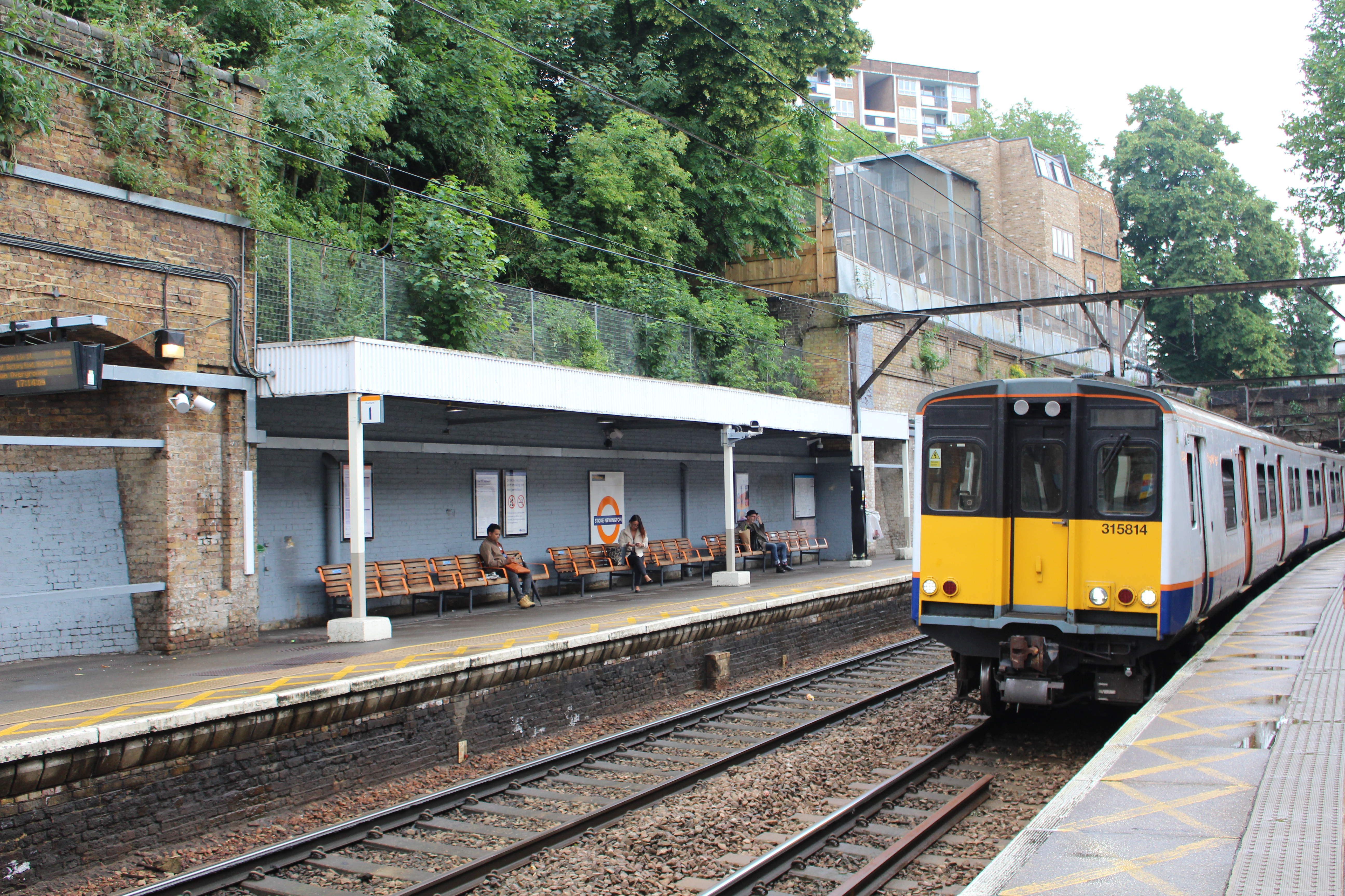 A train.